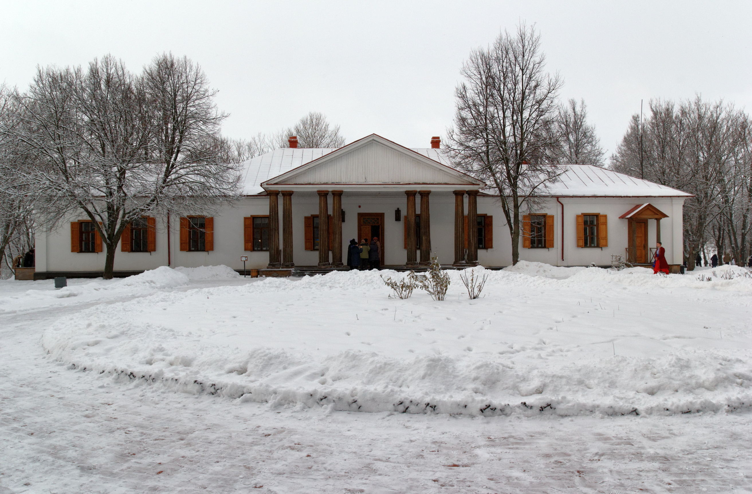 Gogolewo. Museum Estate of Nikolai Vasilievich Gogol